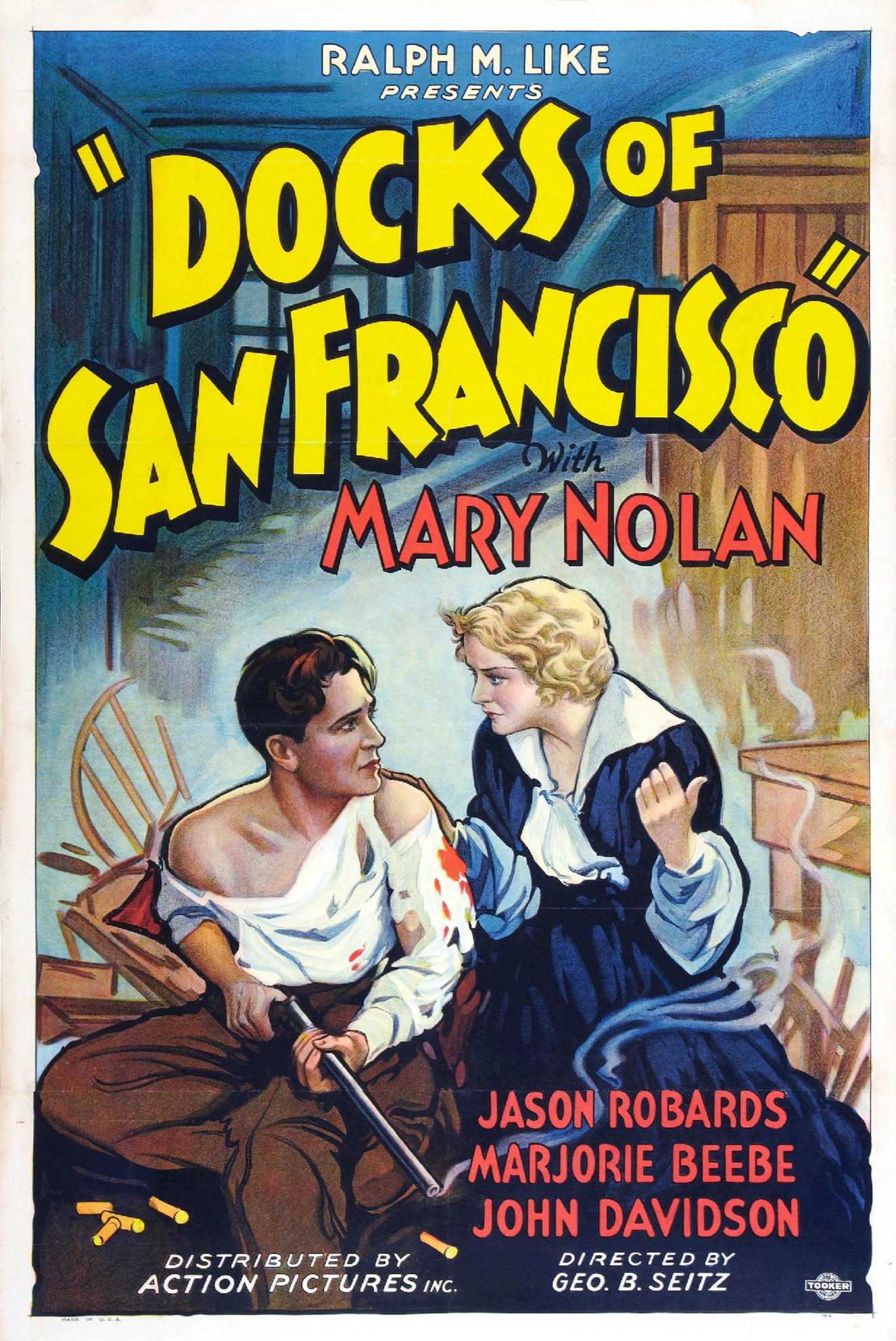 Poster for the 1932 film The Docks of San Francisco. There are no copyright marks. At bottom left is Made in USA. At bottom right is 1512.